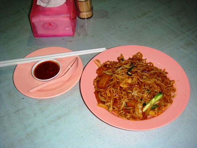 Hakka Mee (Hakka noodle)